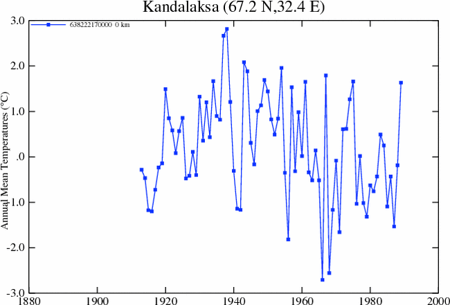 Climate graph of 1931 2008 air average temperaturas at city of Kandalaksa, Russia